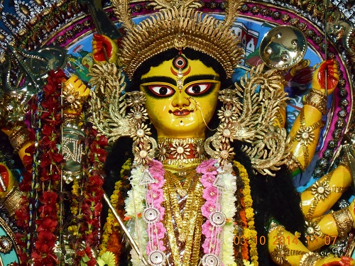 পোড়ামাতলার জনপ্রিয় দুর্গা প্রতিমা ২০১৪